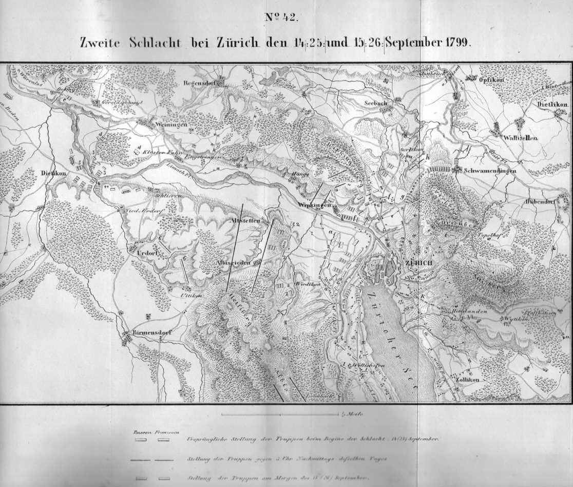 Map of the Second Battle of Zurich, 25./26. September 1799